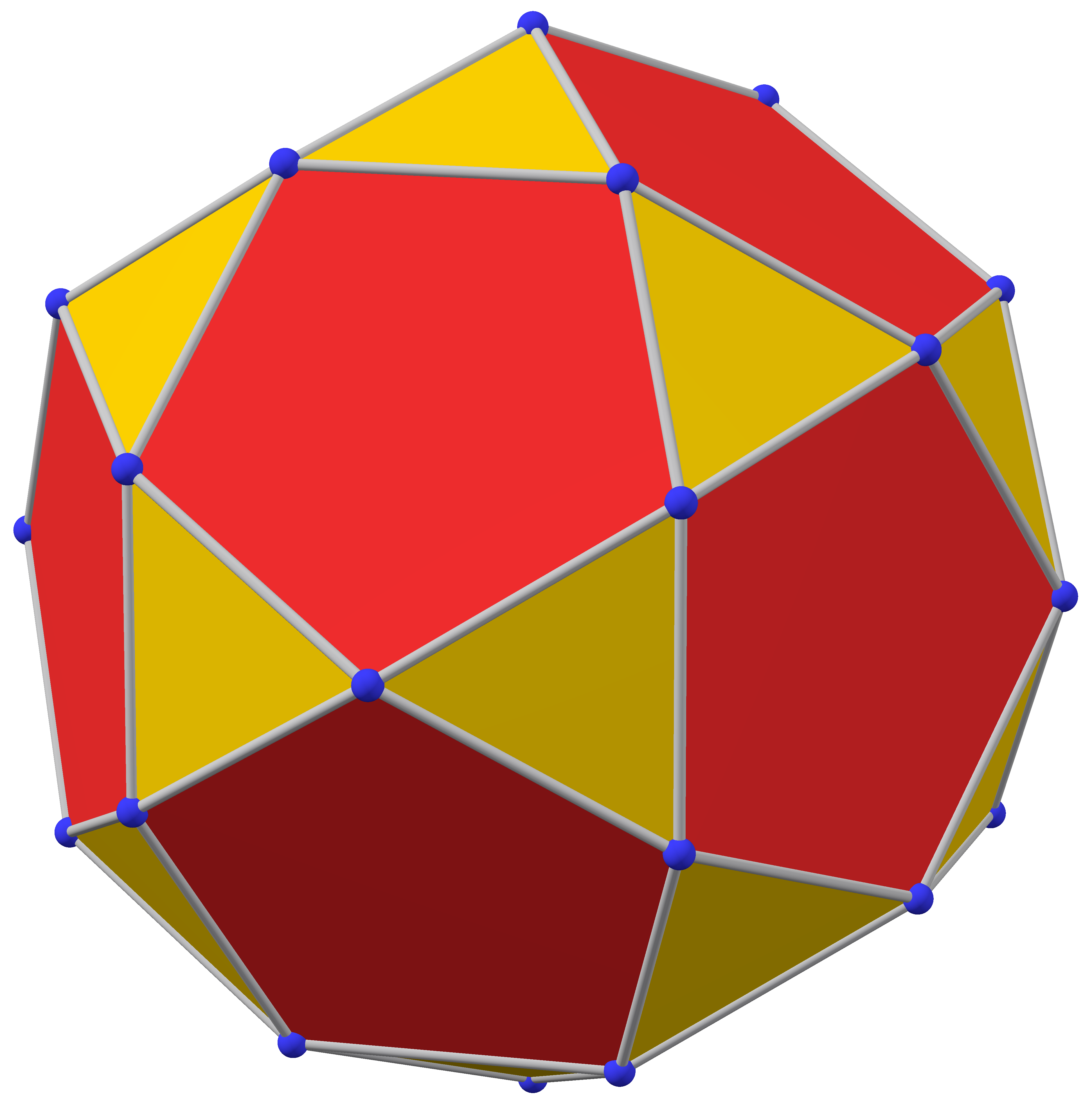 Image set Platonic, Archimedean and Catalan solids with direction colors Part of Polyhedra with direction colors (image set) This polyhedron has a form of icosahedral symmetry. There are 30 blue elements. This set contains renderings of Platonic, Archimedean and Catalan solids. For most of them the sphere shown on the right is the polyhedrons midsphere. The geometric properties of these images have been calculated with Python, and they have been rendered with POV-Ray. The source code used can be found on GitHub. The POV-Ray sources are in this folder. This image was created with POV-Ray. This PNG graphic was created with Python. The images in this set have consistent sizes and angles. Please do not overwrite them. If this image has a margin, there is probably a variant without it — or it can be uploaded. (Filename with " max" at the end.)